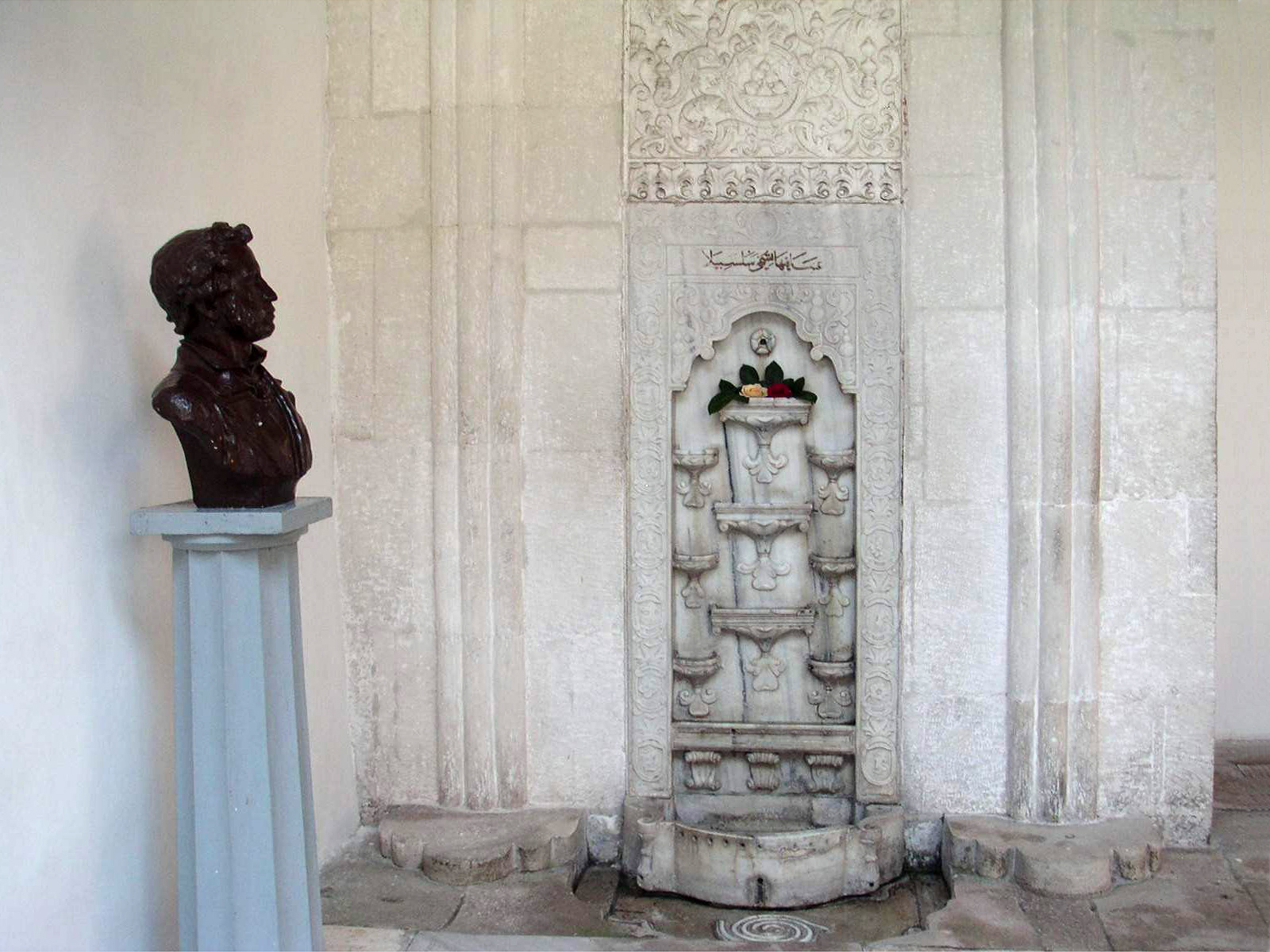 Gözyaşı Çeşmesi